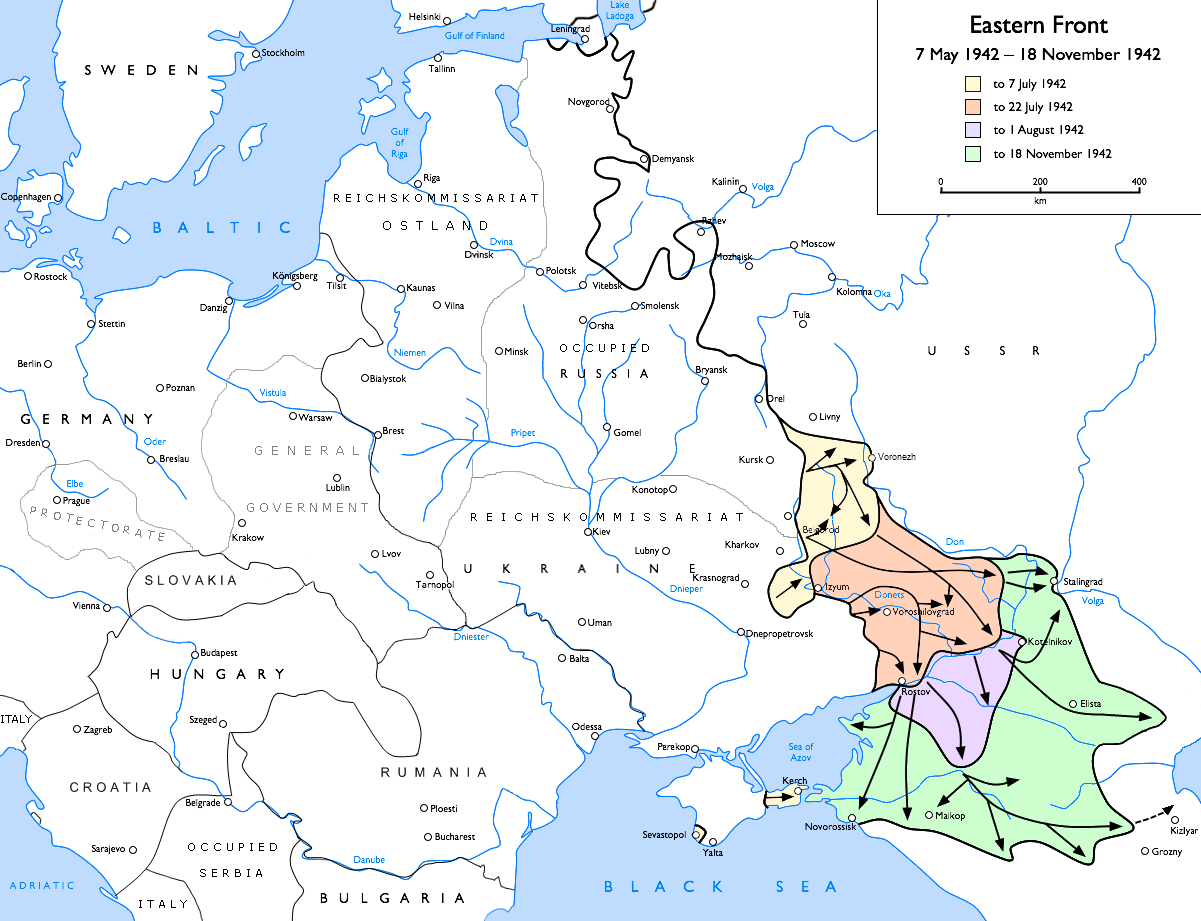 Eastern Front (WWII), 1942-05-07 to 1942-11-18 Legend: Operation Blau: German advances from 7 May 1942 to 18 November 1942 to 7 July 1942 to 22 July 1942 to 1 August 1942 to 18 November 1942